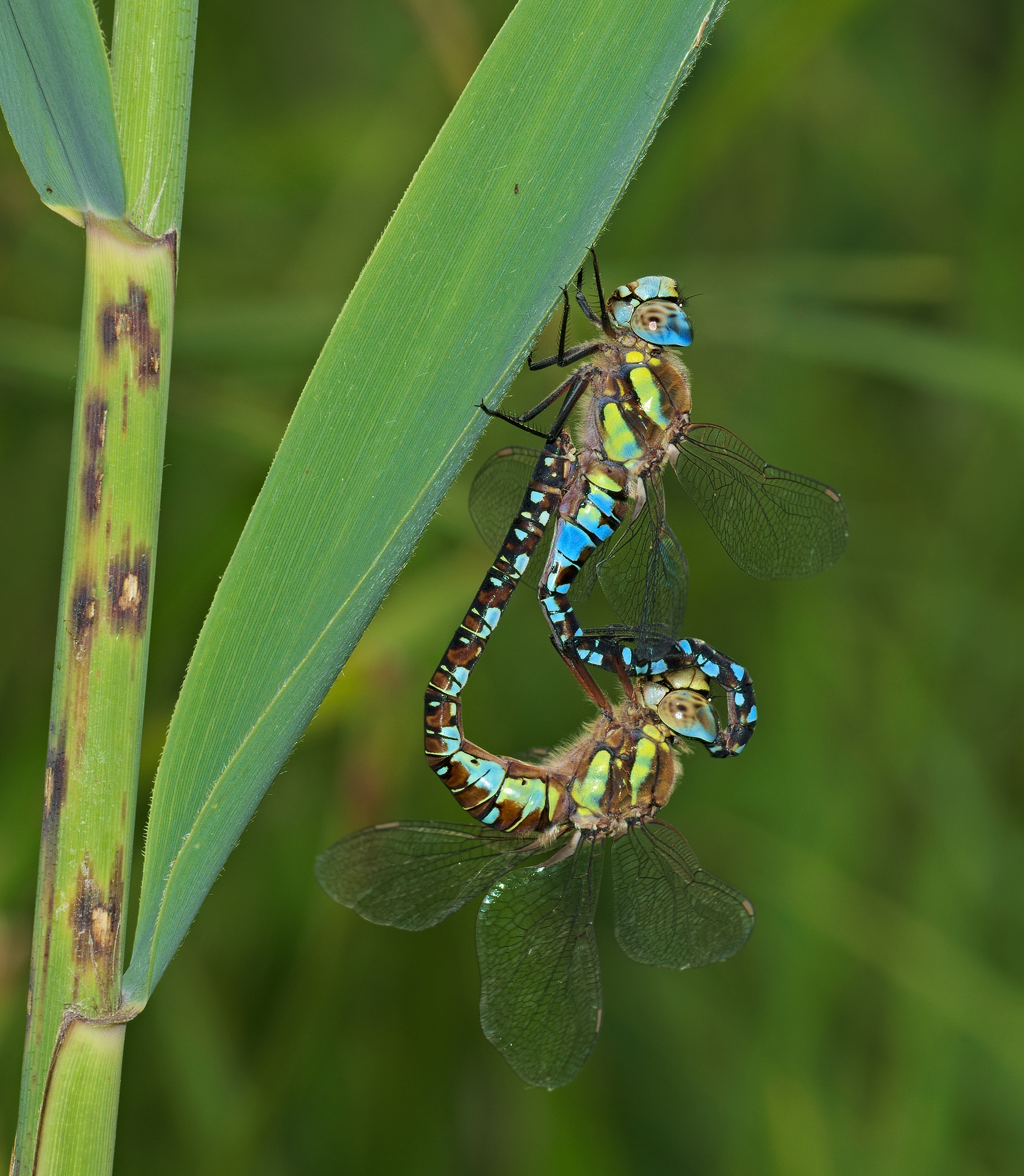 Migrant hawker - Aeshna mixta, couple. Taken by a fishing lake in Hüttenfeld, Lampertheim, Hesse, Germany.